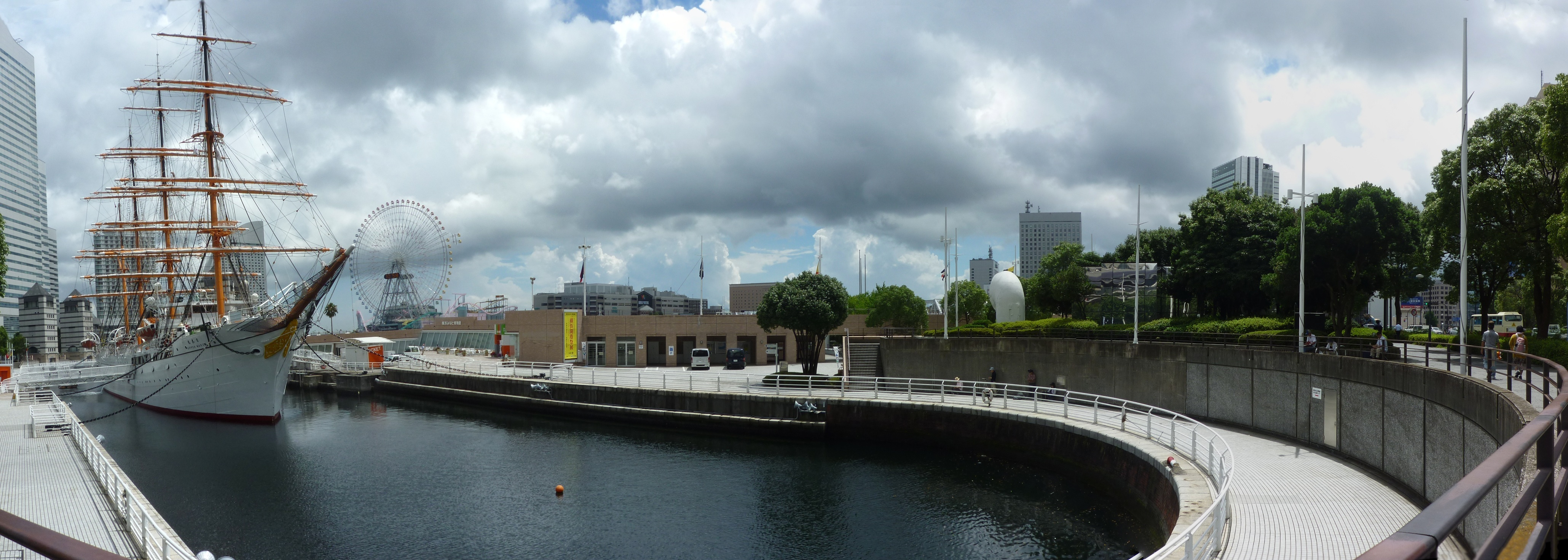 Panorama, Nippon Maru (in Yokohama)